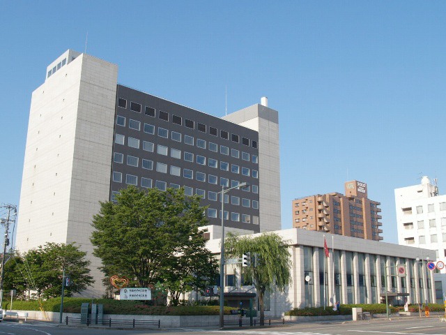 Akita Bank head office